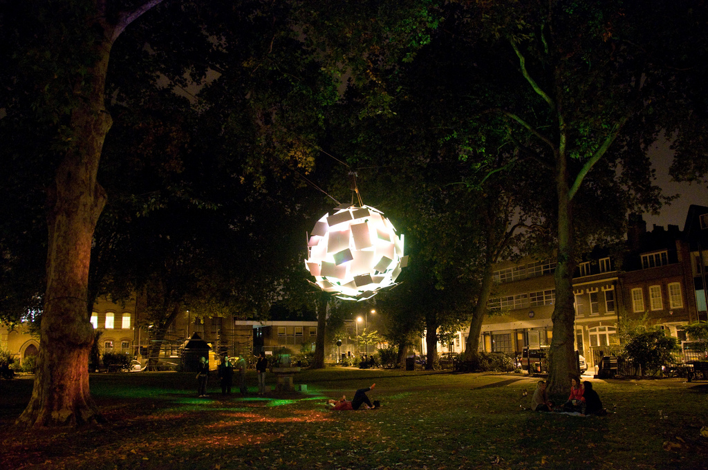 Interactive lighting artwork in Hoxton Square, London, created by Cinimod Studio. Commissioned to mark the launch event of the UK's Restaurant and Bar Design Awards.